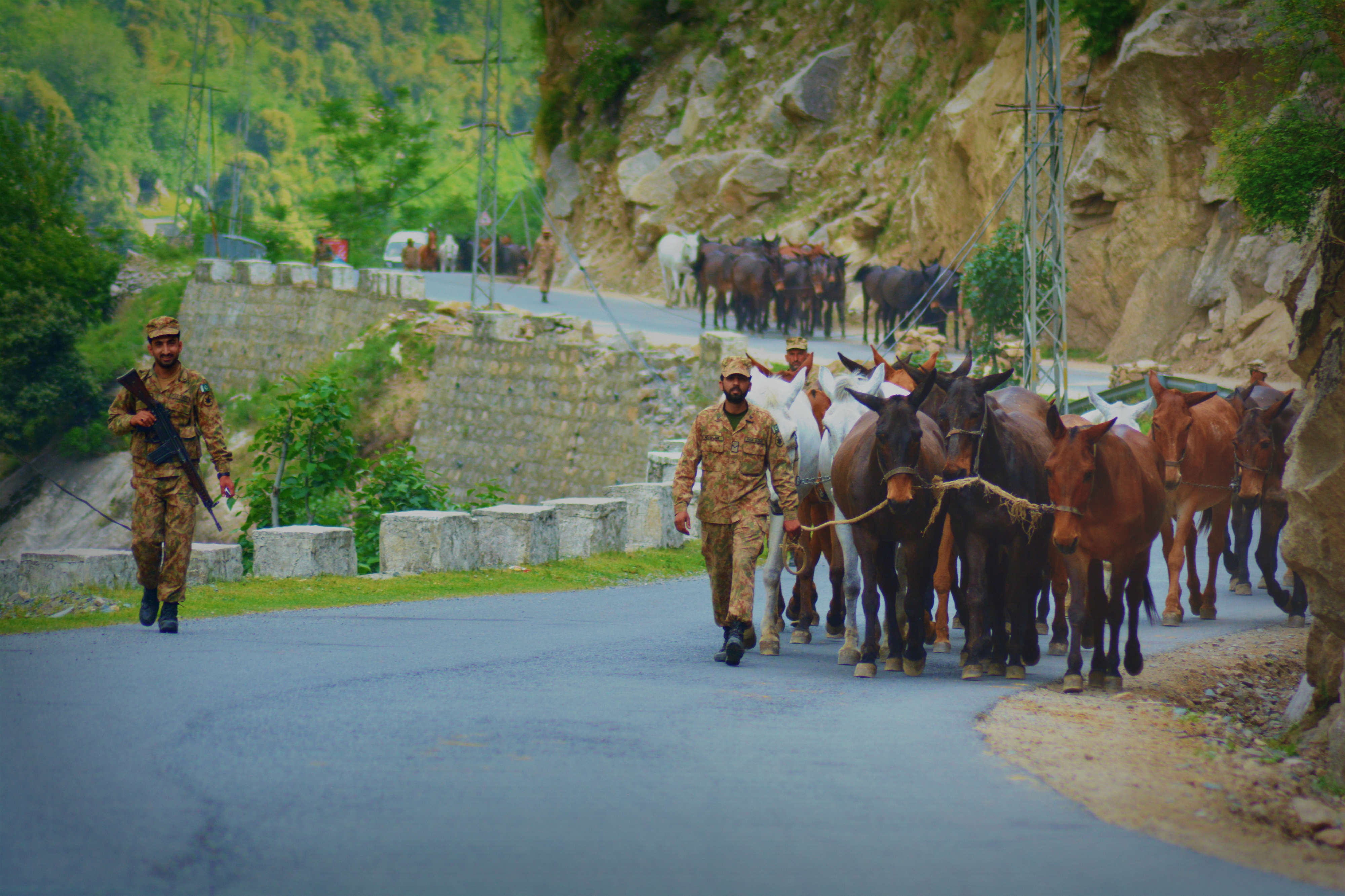 Pakistan army taking their horses.